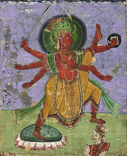 Dwarf Incarnation of Vishnu (Vamana- Trivikrama), Painting; Watercolor, Opaque watercolor on paper, 11 5/8 x 9 3/4 in. (29.53 x 24.8 cm) Made in: Nepal Gift of Ann Rohrer (M.84.58.1)